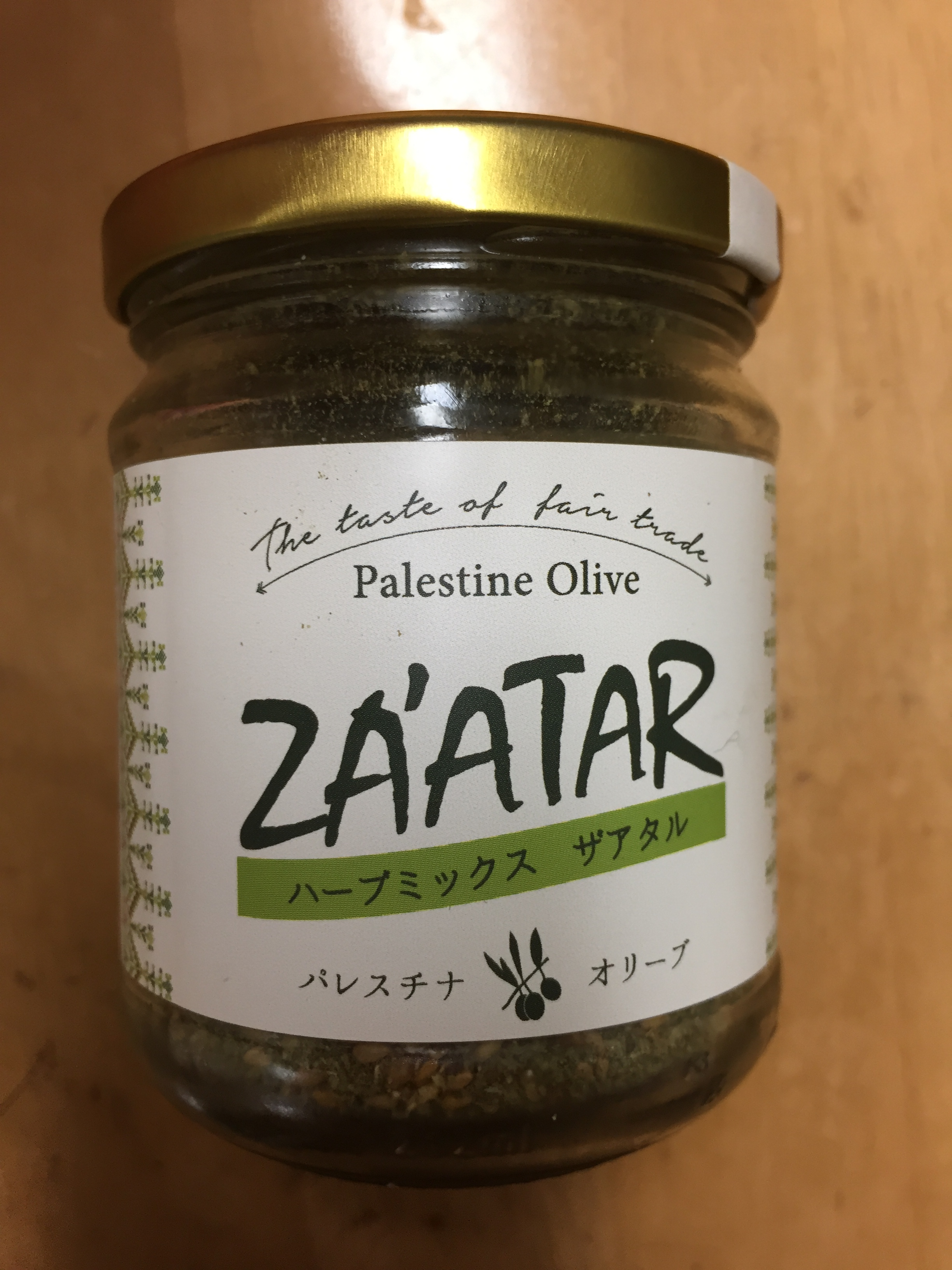 A za'atar jar sold in Japan